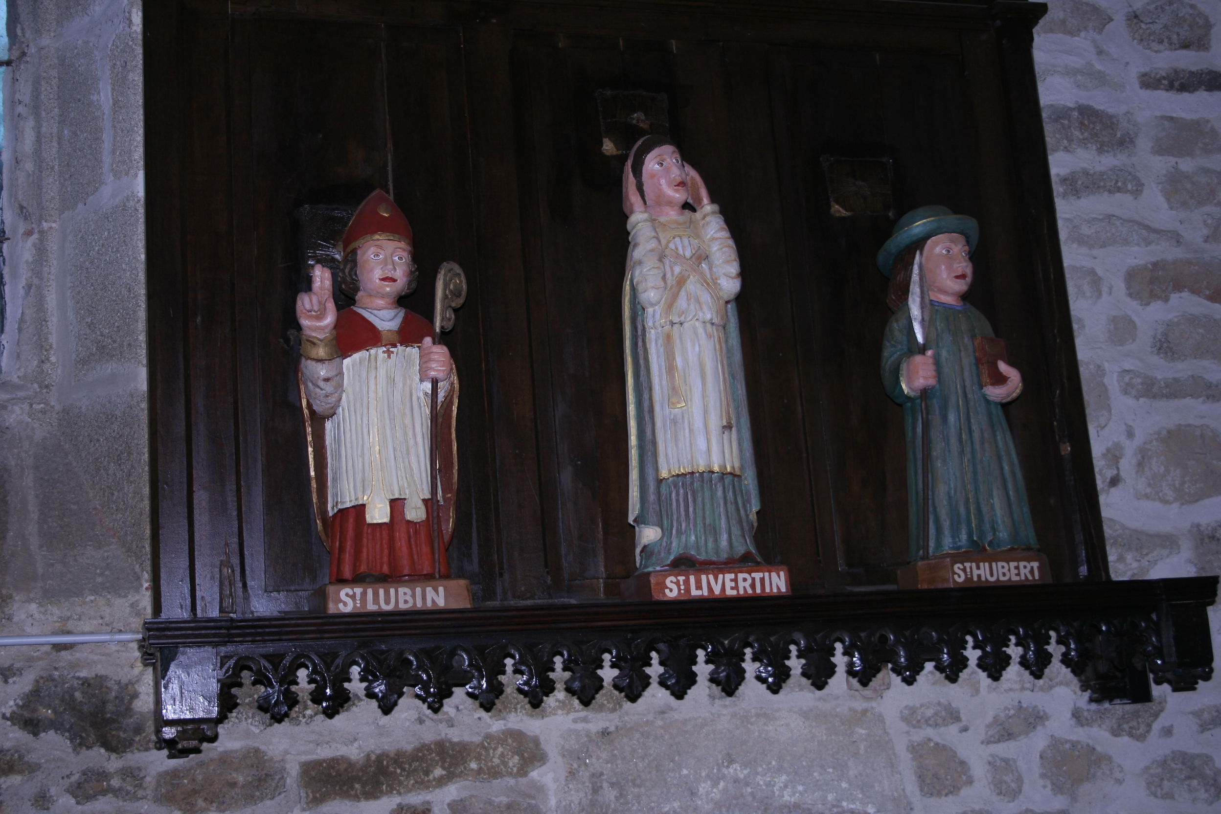 Polychromatic sculptures in Notre Dame de Haut near Trédaniel